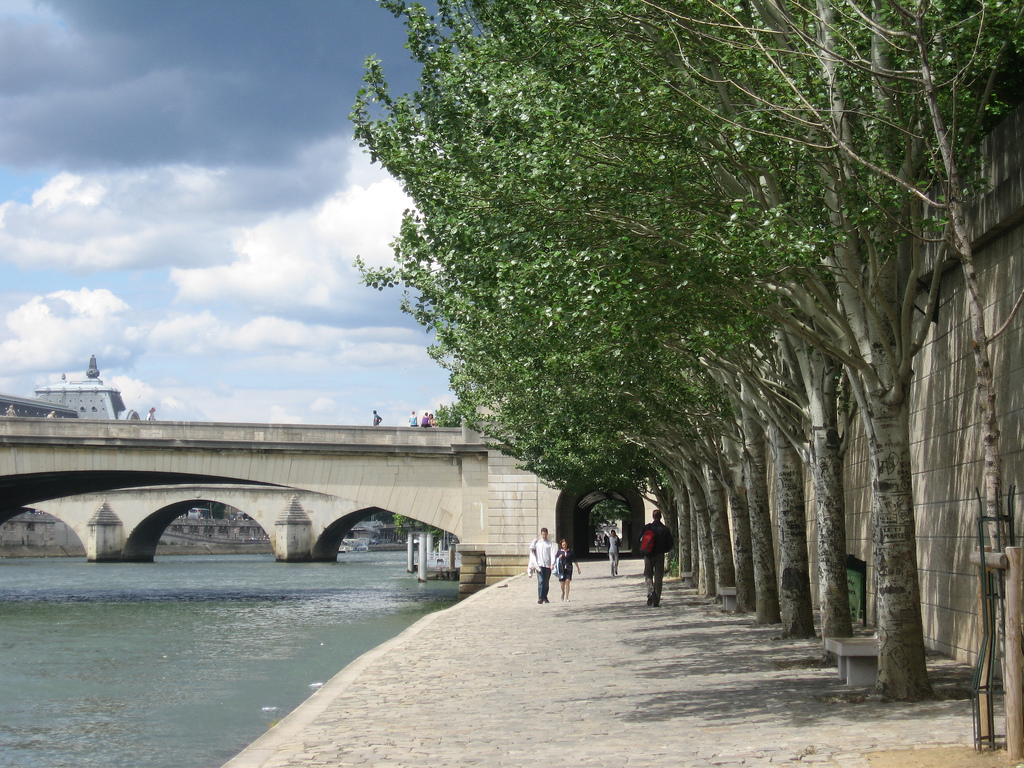 Looking downriver on the Seine from the right bank. The bridge in the foreground is the Pont du Carrousel; behind it is the Pont Royal. Paris, July 2008.